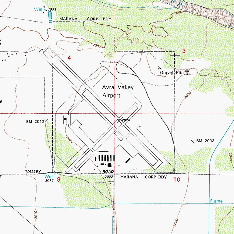 United States Geological Survey Topographic map of what is now Marana Regional Airport